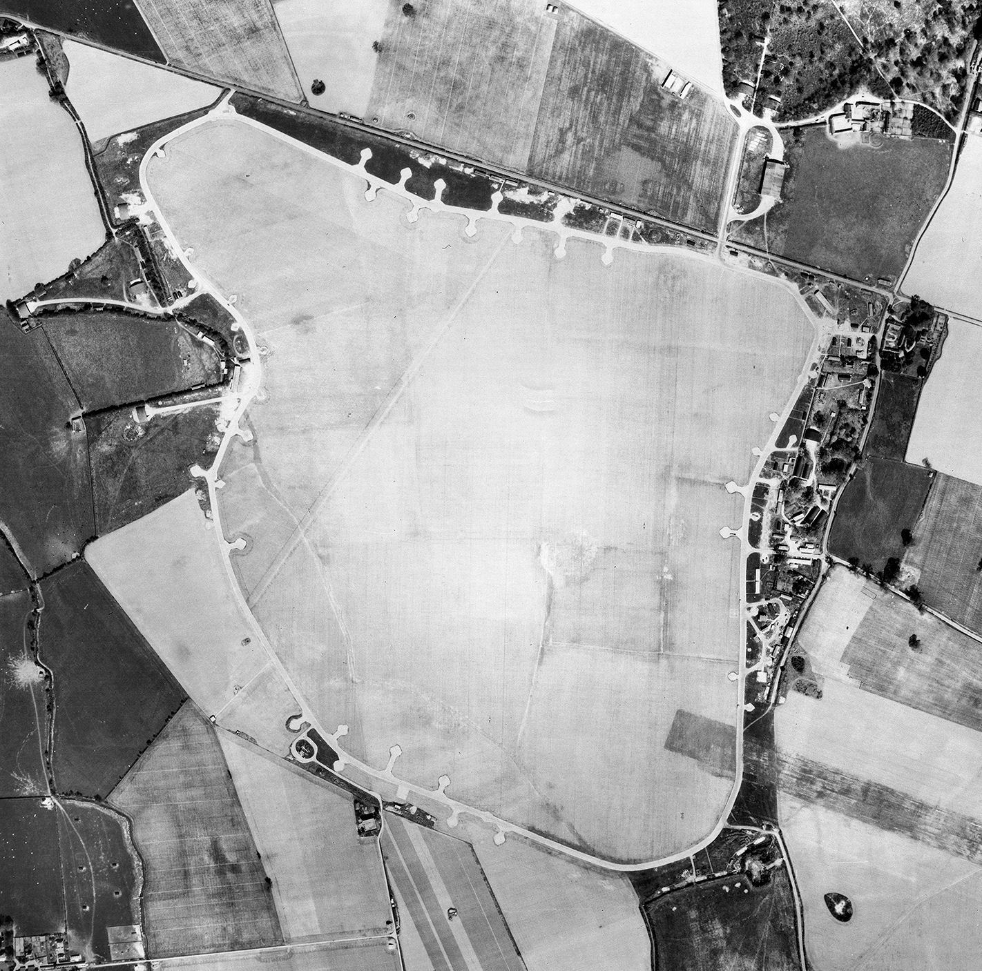 Aerial photograph of RAF Westhampnet, the technical site is to the right, 19 April 1946. Photograph taken by No. 138 Squadron, sortie number RAF/3G/TUD/UK/156. English Heritage (RAF Photography).